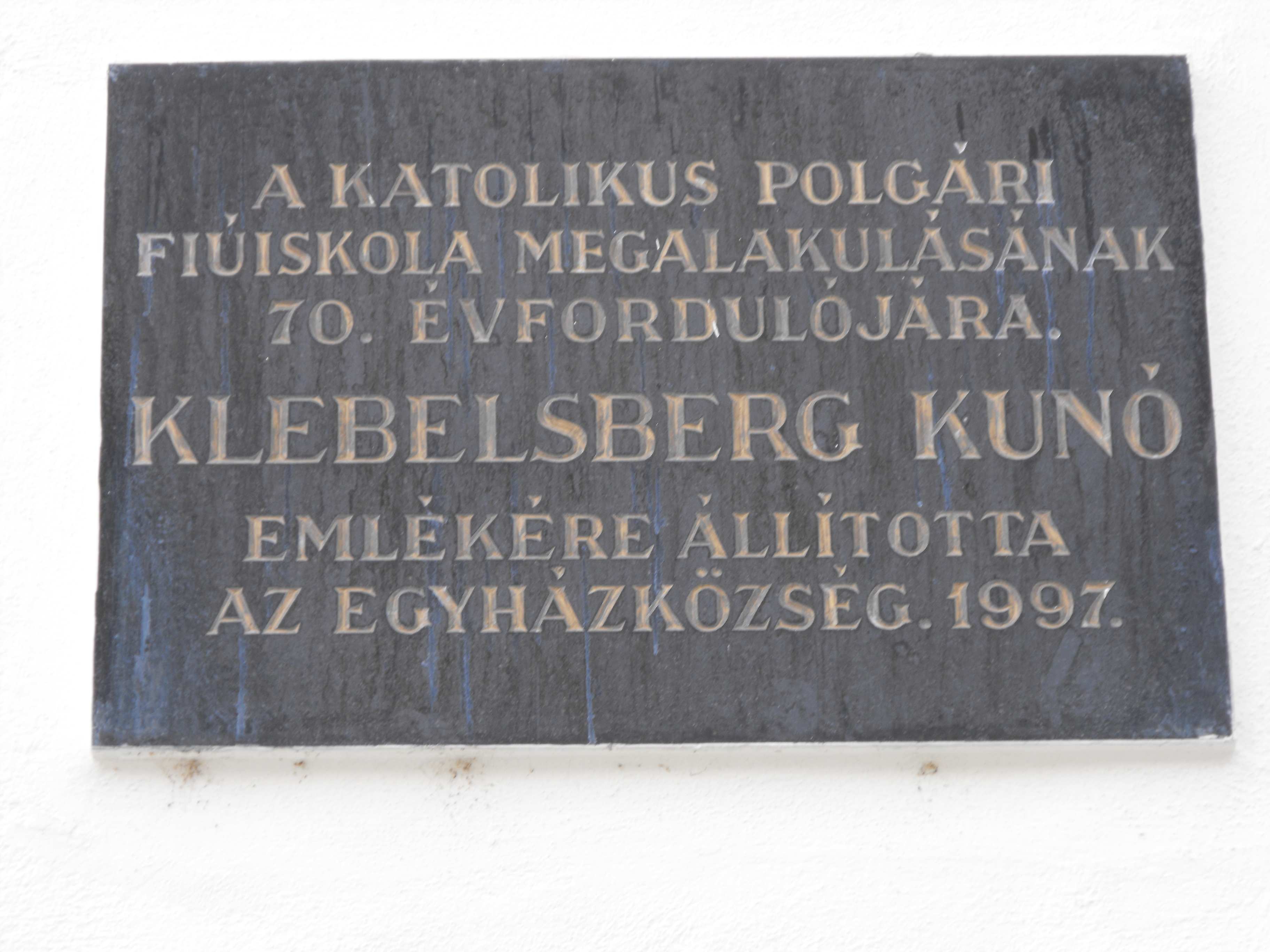 Memorial tablet of Kuno Klebelsberg, Secretary of Education in Makó, Hungary.